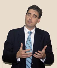 Picture of Daniel Feetham